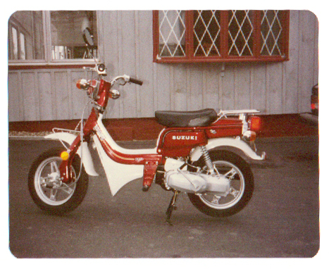 Marty's old moped. I wish he still had it.